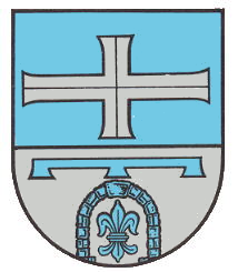 Coat of arms of Erfweiler